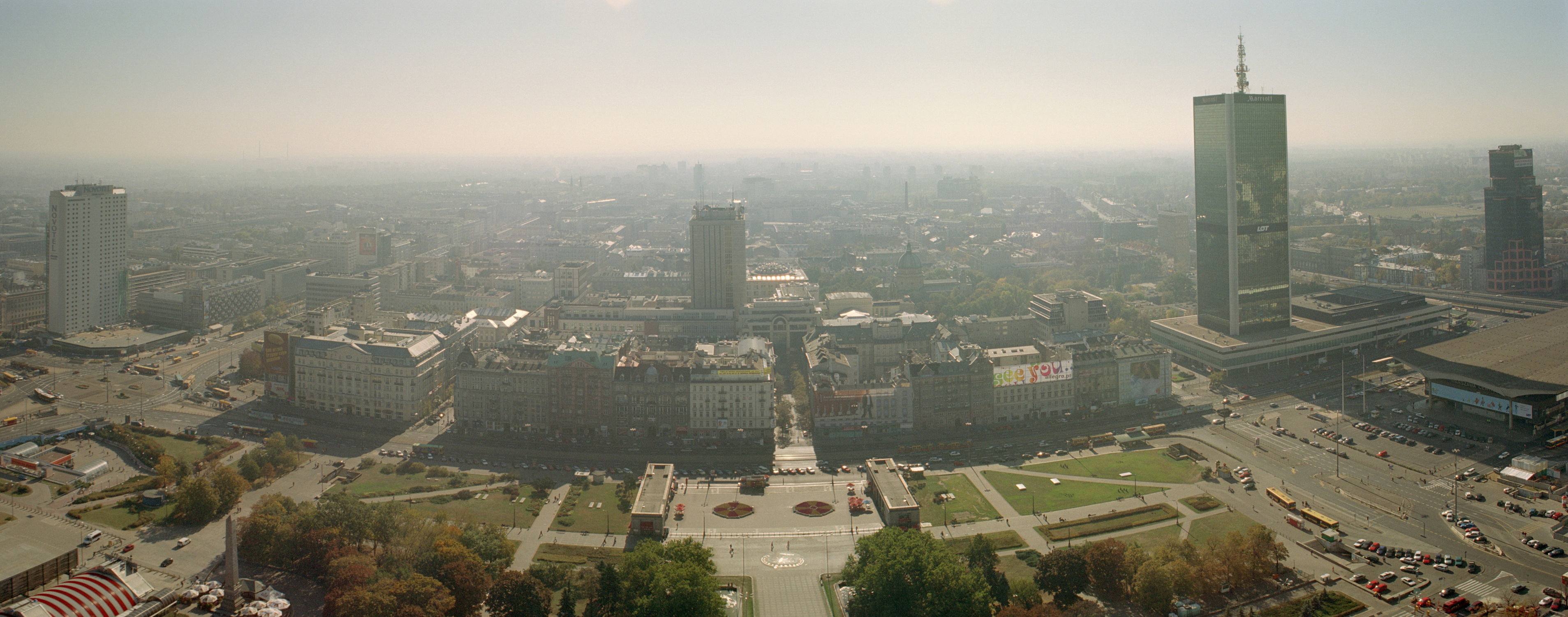 panoramic picture of Warszawa, taken from the Dom Kultury (house of culture) taken by myself in october 2005 de: Panorama von Warschau, Blick vom Kulturpalast